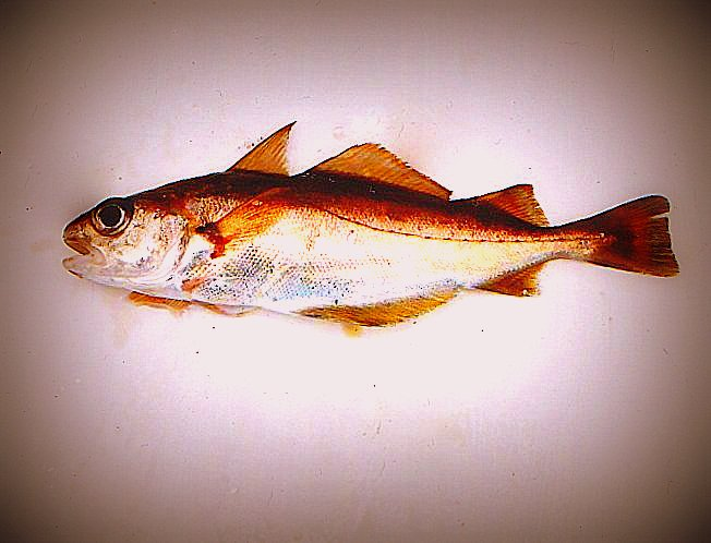 A poor cod caught in Ireland